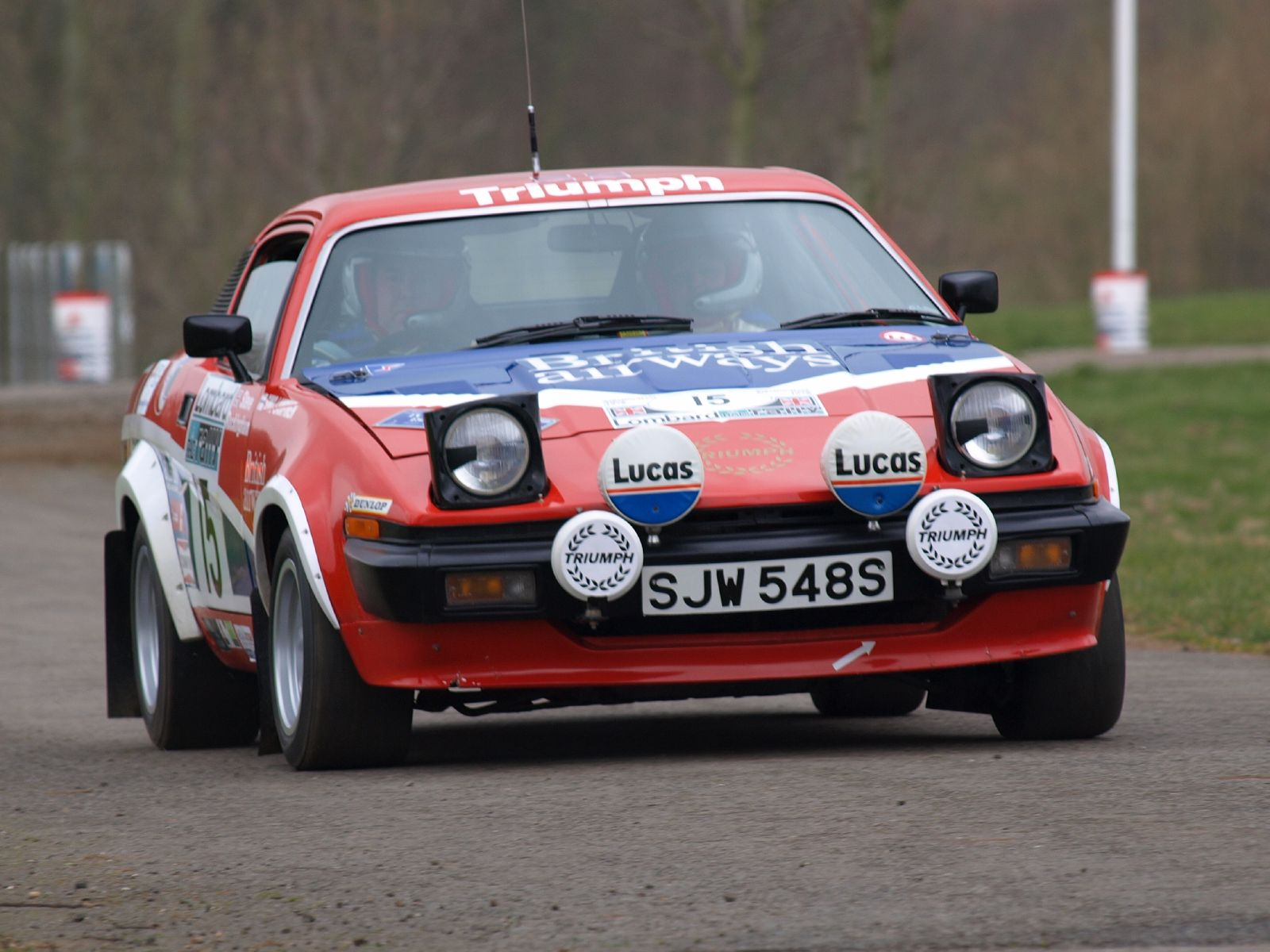 Simo Lampinen's Triumph TR7 of the 1978 Lombard RAC Rally driven at Race Retro 2008, the International Historic Motorsport Show, at Stoneleigh Park, Coventry, England.